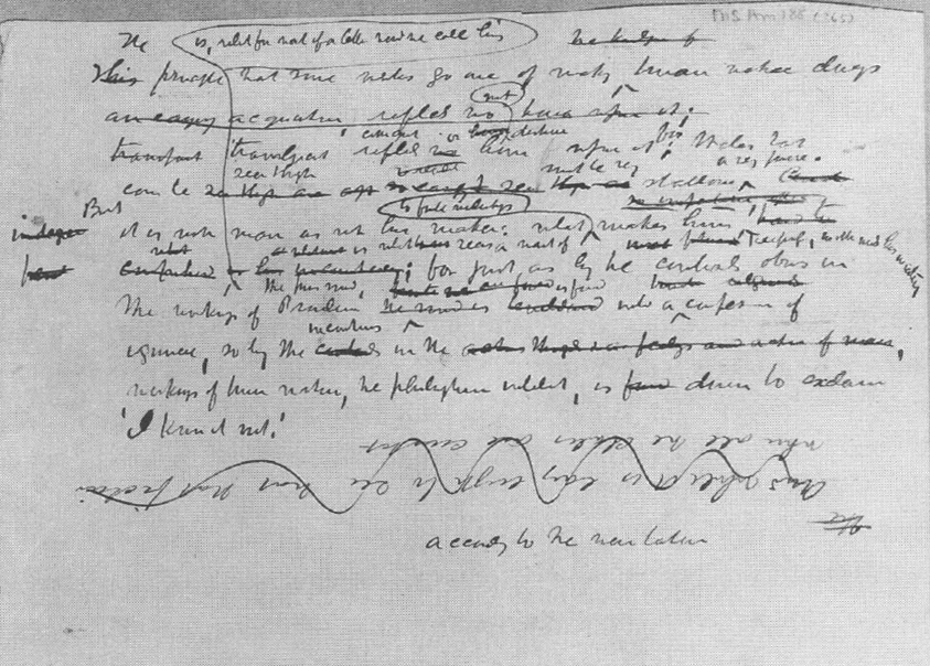 Manuscript fragment from Chapter 14 of Herman Melville's The Confidence-Man. bMS Am 188 (365), Houghton Library, Harvard University